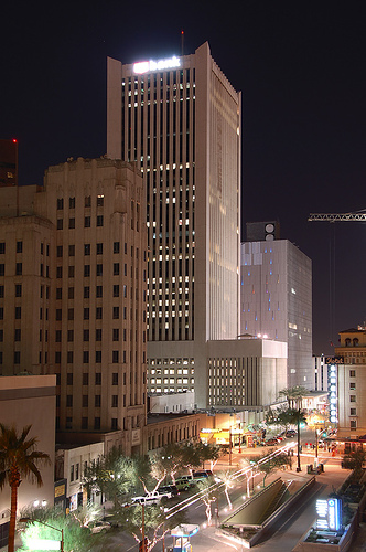 101 at night